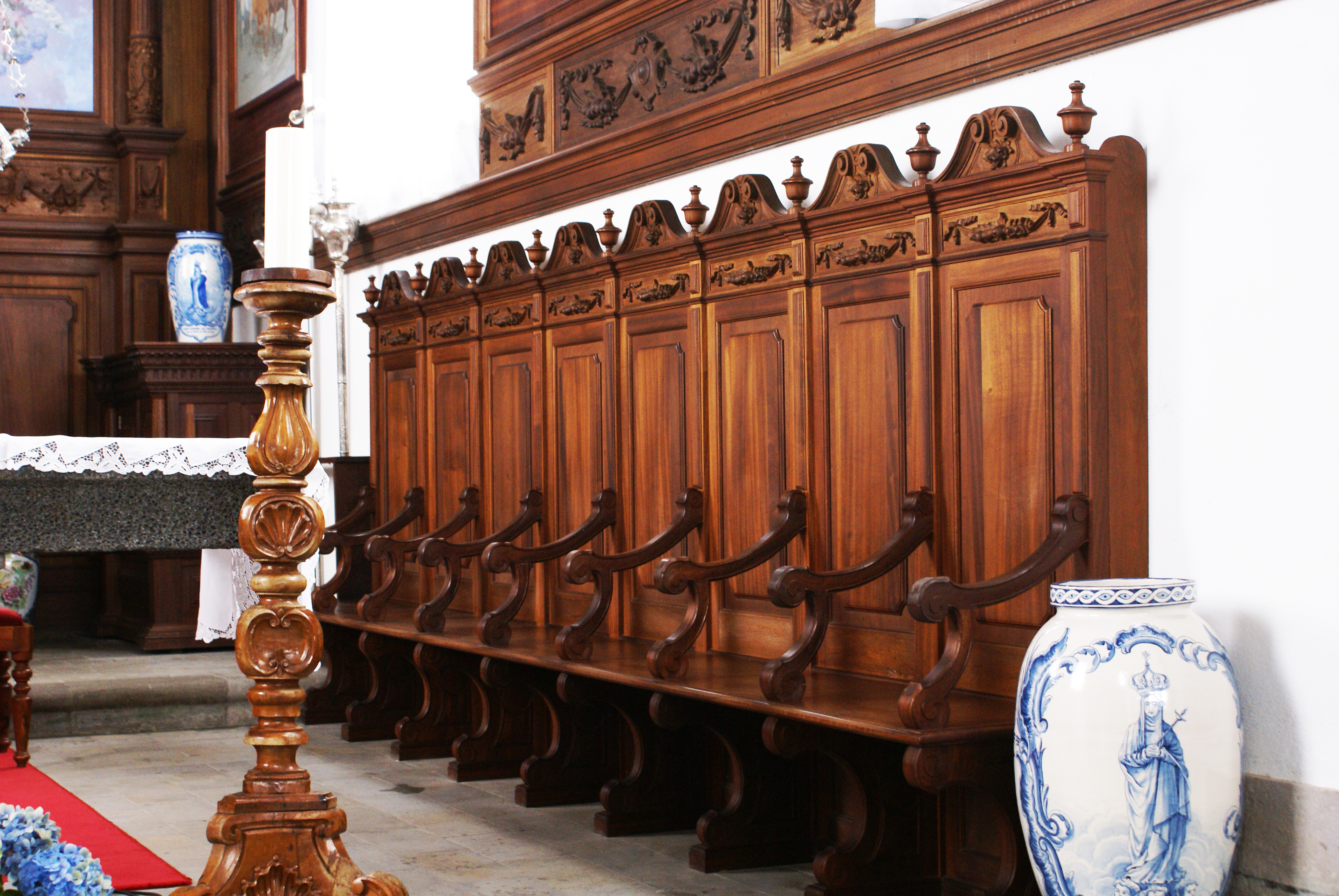 Liturgical seating in the Church of Nossa Senhora das Angústias, Angústias, Horta, Faial (Azores), Portugal